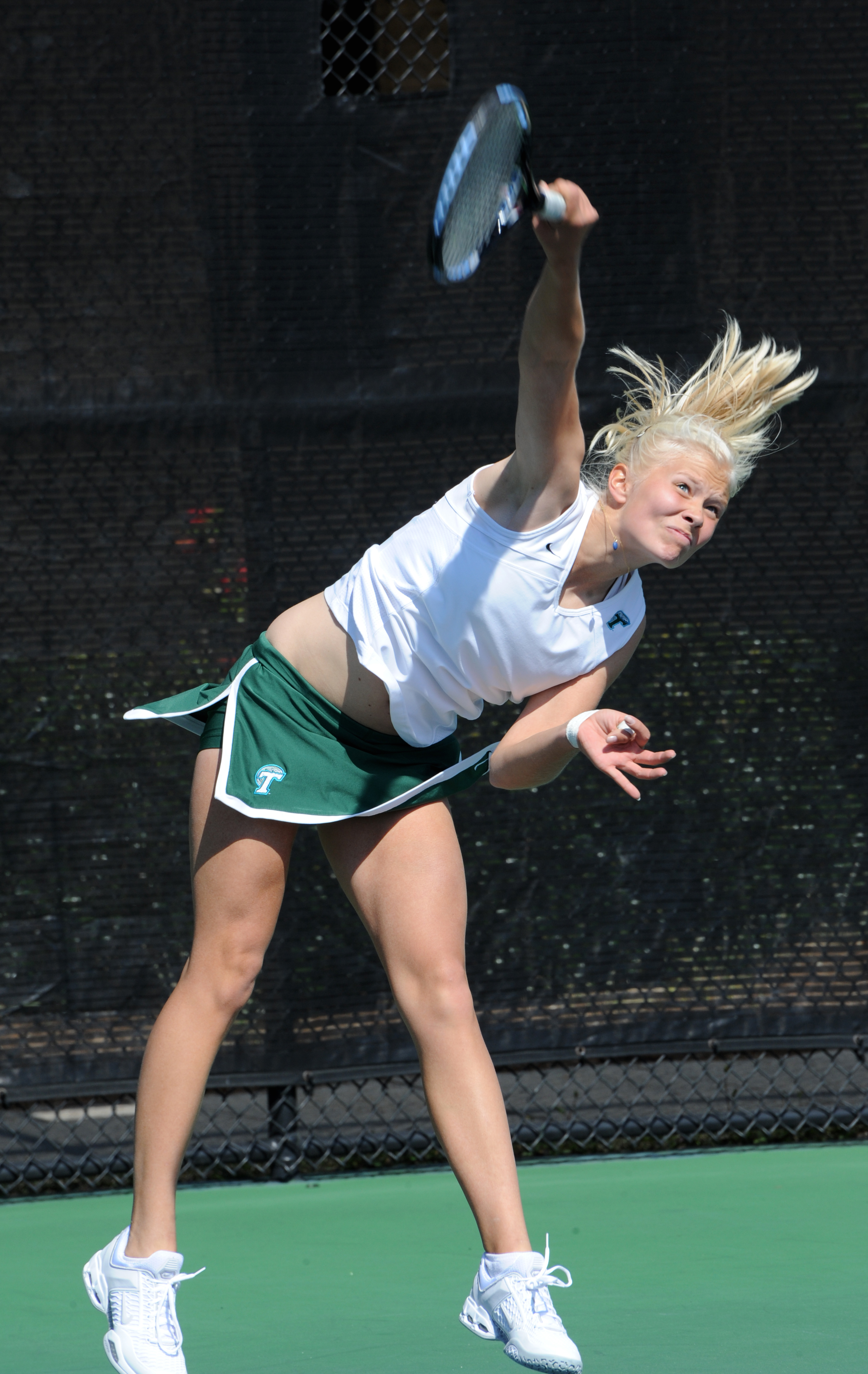 Emma Helistén playing for the Tulane Green Wave in 2010